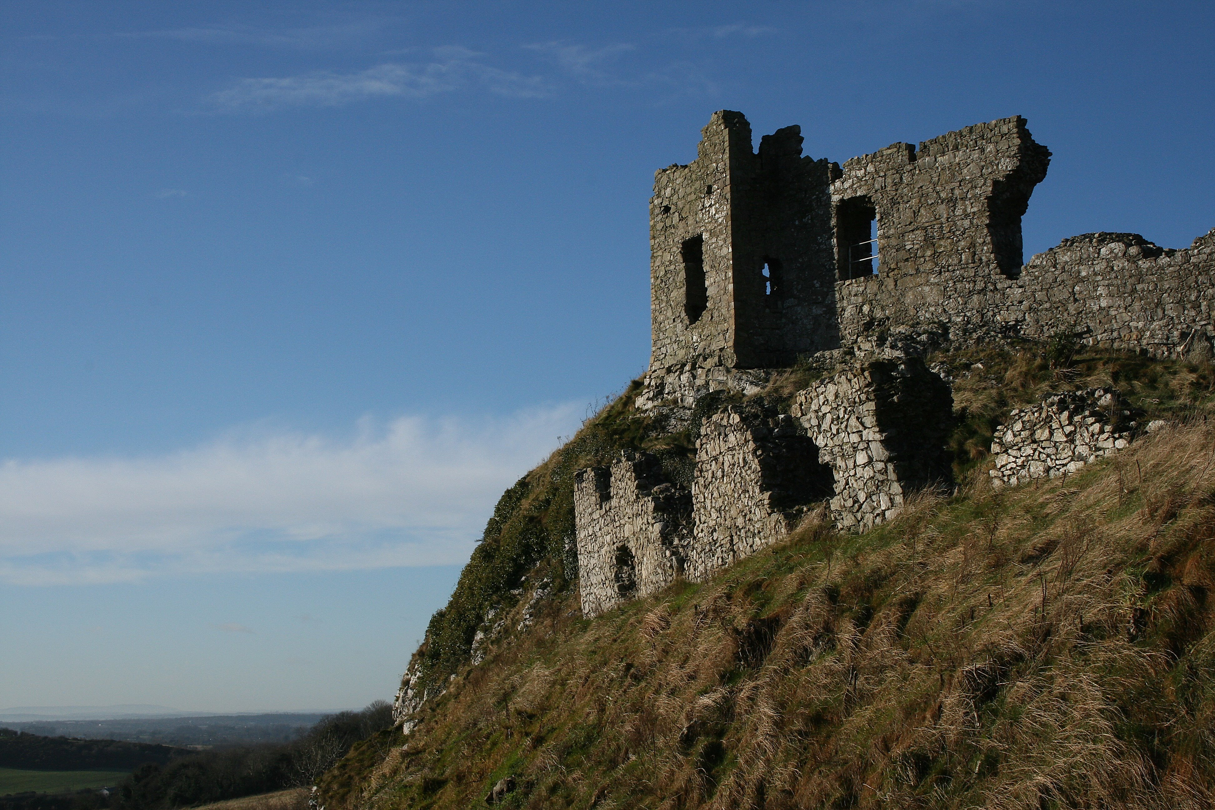 The Rock of Dunamase, County Laois, Ireland. Time tumbling the fortress.